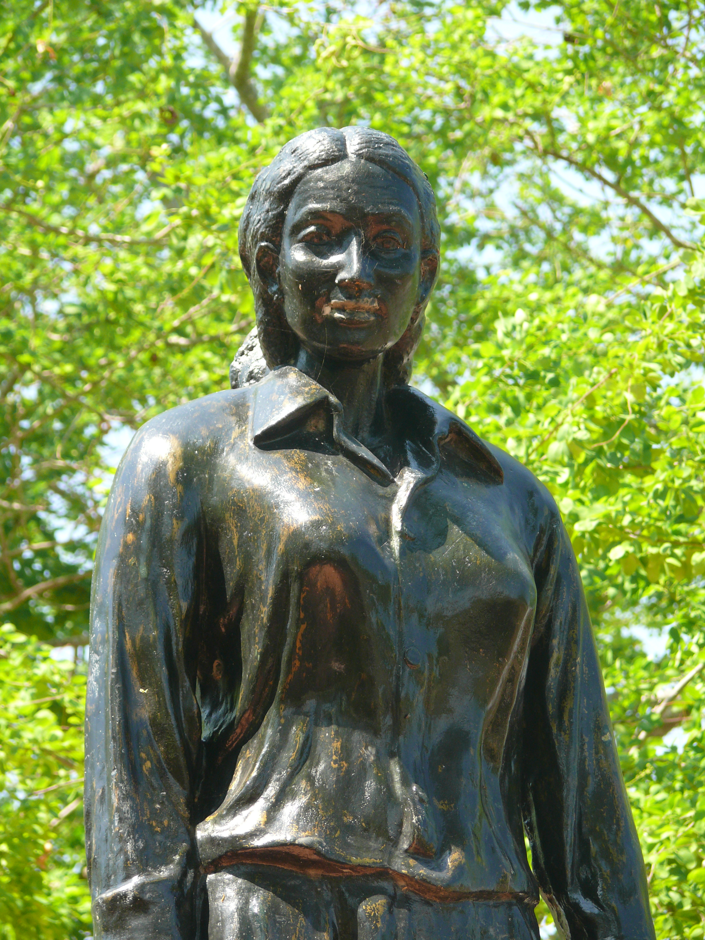 Doña Bárbara